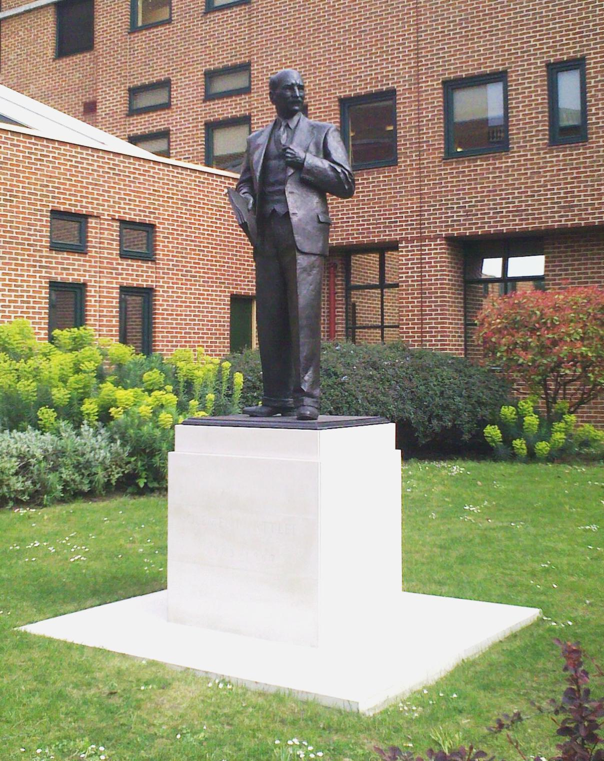 The Statue of Clement Attlee repositioned outside the Library of Queen Mary, University of London at Mile End. This Statue was originally outside the Public Library in Limehouse, East London, where it became delapidated and vandalised. It has been presented on permanent loan from the London Borough of Tower Hamlets to Queen Mary, University of London, who have repaired and refurbished it - note that the right hand has been replaced, with a slight difference, in the restoration. Note that is a picture of this statue before restoration. See also